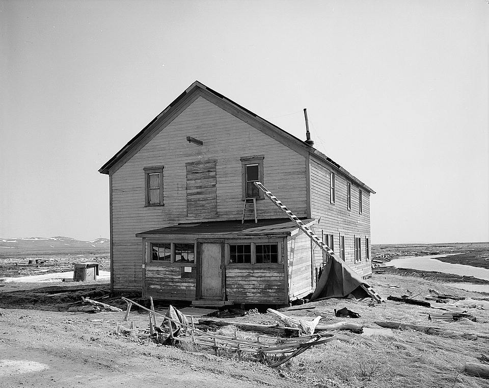 Front and side of the Solomon Roadhouse, a building located along the Nome-Council Highway near the city of Nome in the Nome Census Area of the U.S. state of Alaska. Built in 1904, the roadhouse was added to the National Register of Historic Places on 17 September 1980.